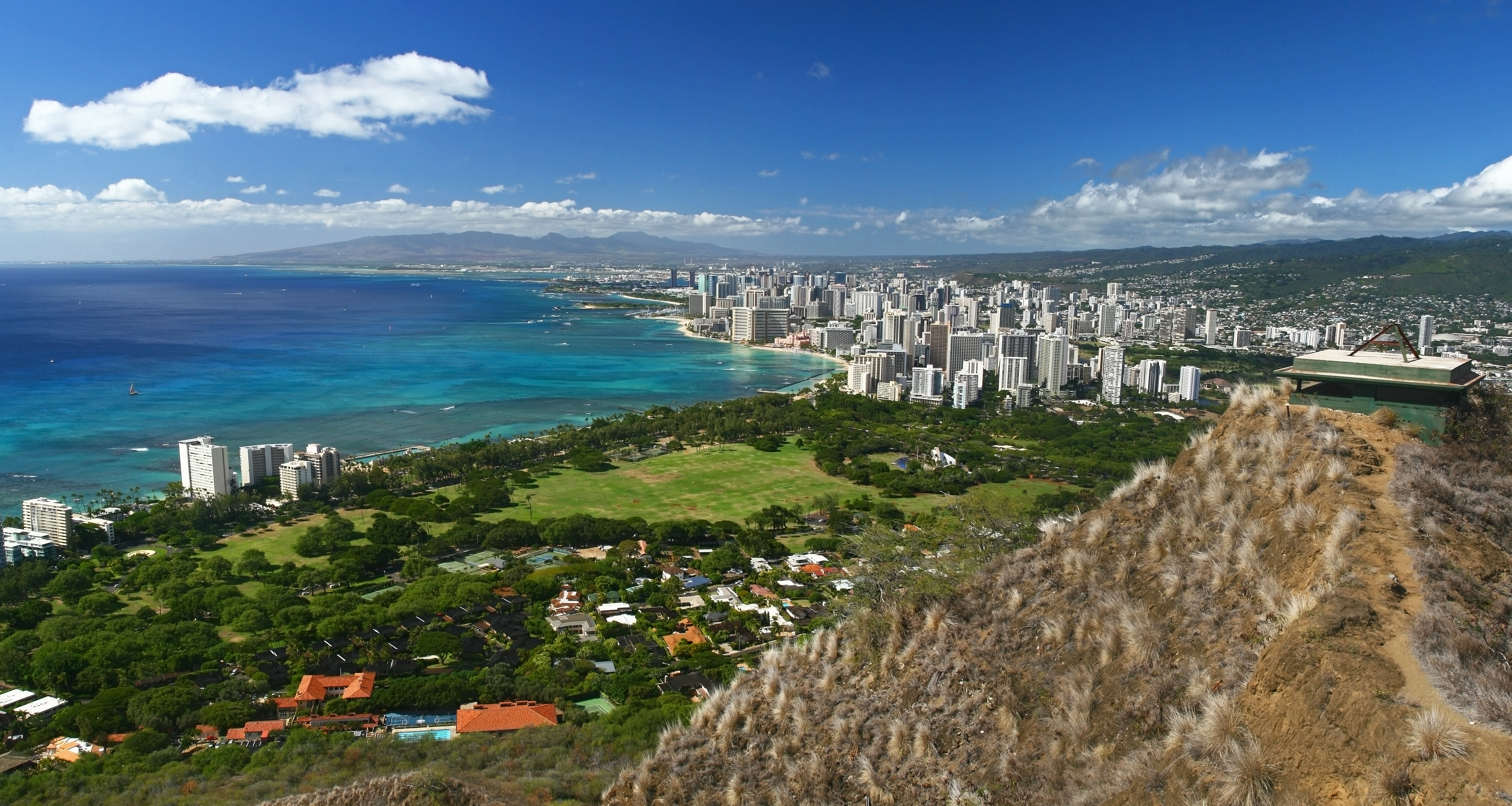 View of the Waikiki Beach from the rim of the Diamond Head crater. Picture taken at Diamond Head State Monument, Honolulu, Hawaii, USA.